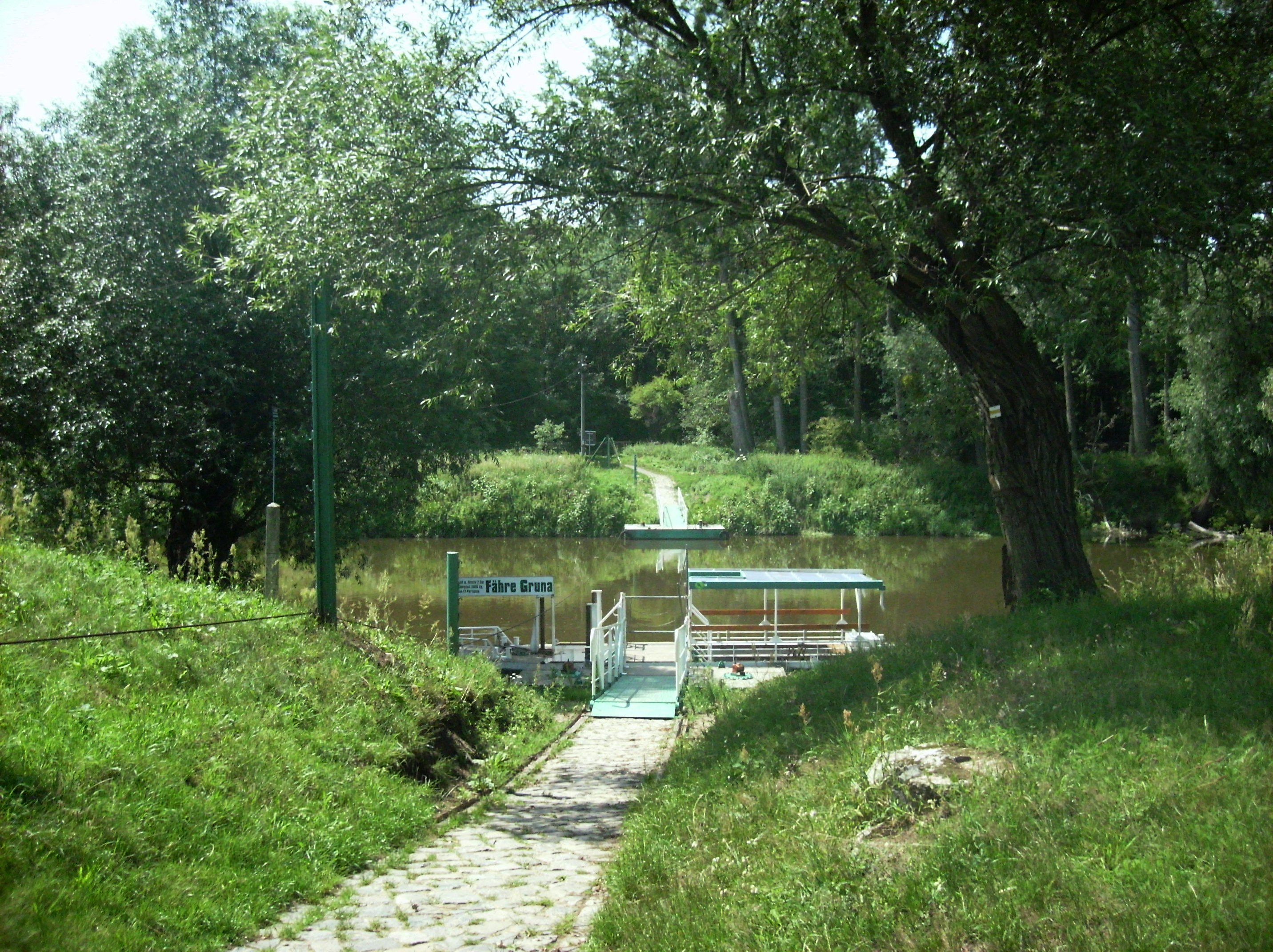 Gruna ferry at the Mulde river (Laussig, Nordsachsen district, Saxony)